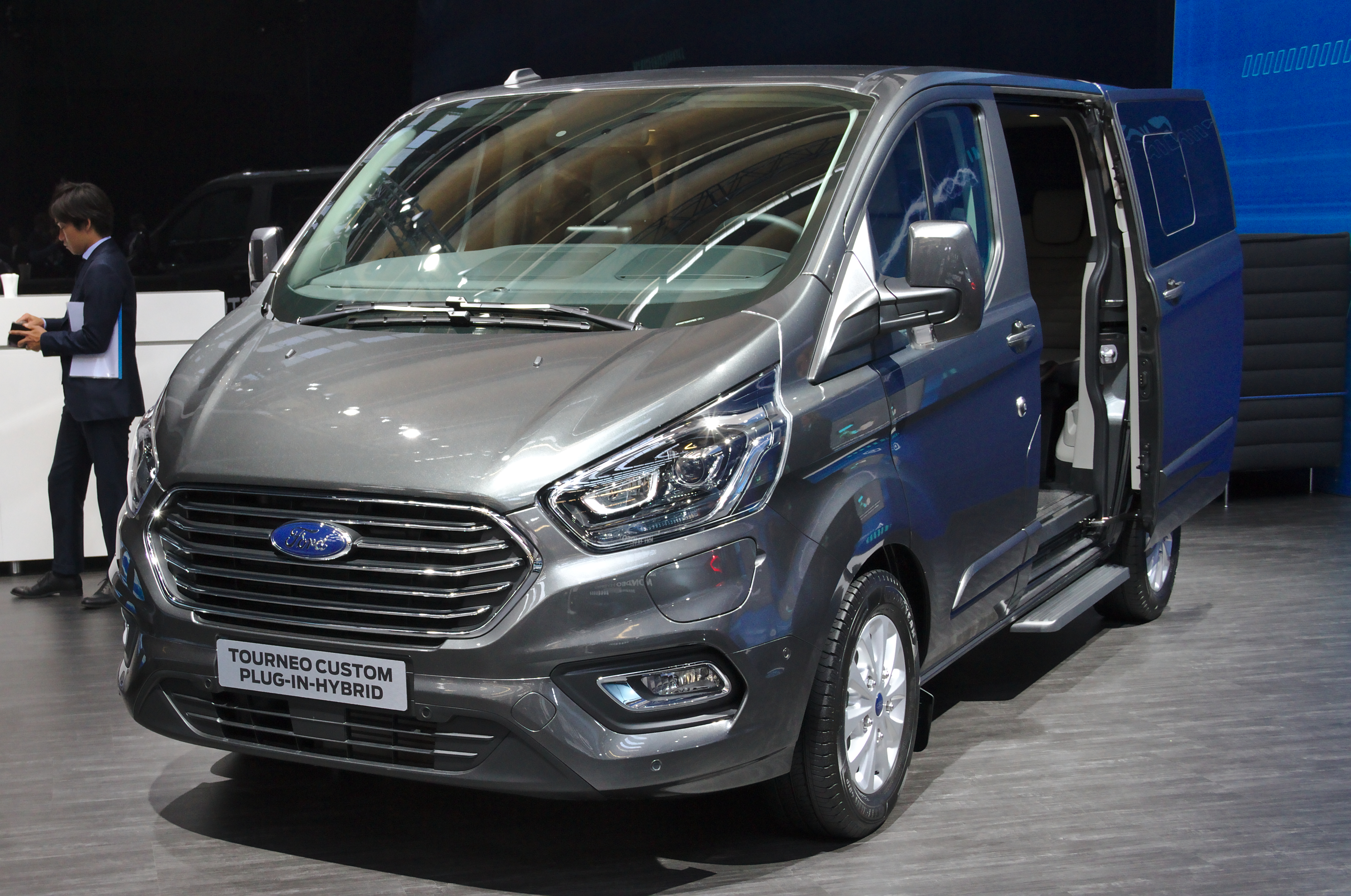 Ford_Tourneo_Custom_PHEV at IAA 2019